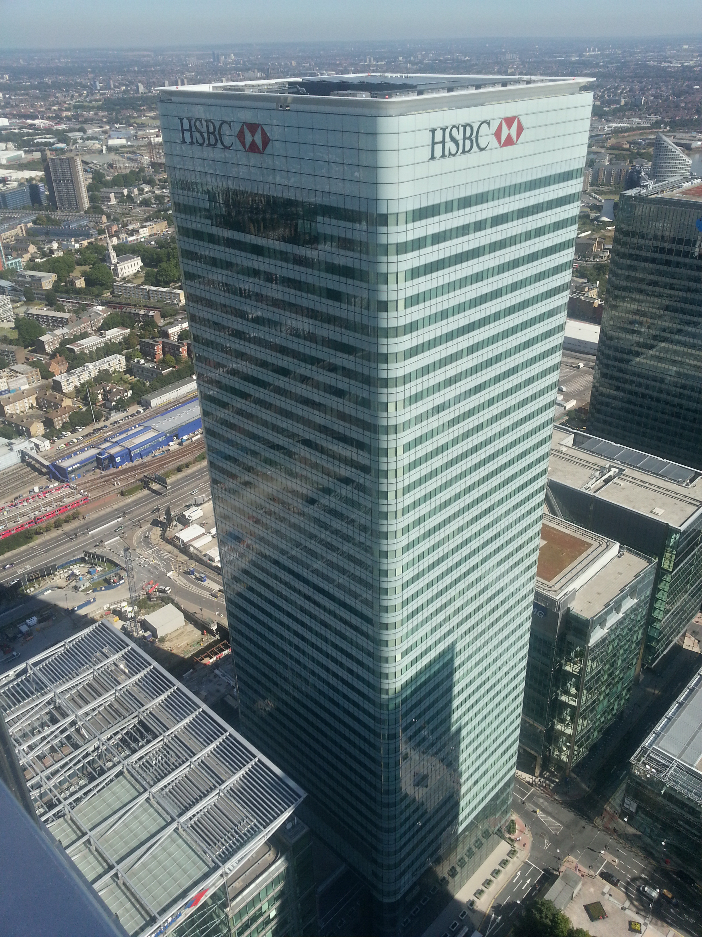 HSBC Building, 8 Canada Square, Canary Wharf, London, UK